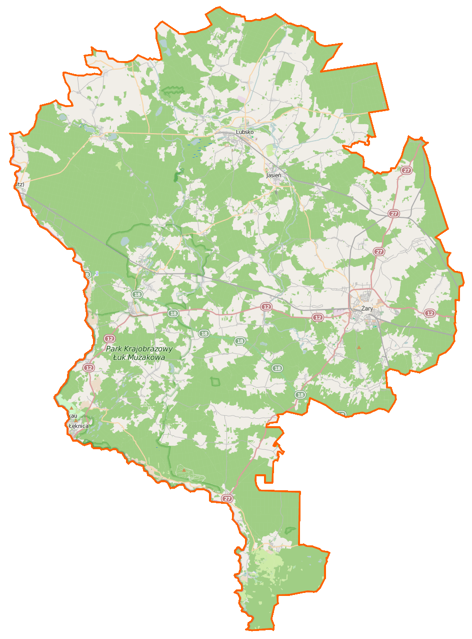 Map of Powiat żarski, Poland This map of Powiat żarski was created from OpenStreetMap project data, collected by the community. This map may be incomplete, and may contain errors. Don't rely solely on it for navigation.